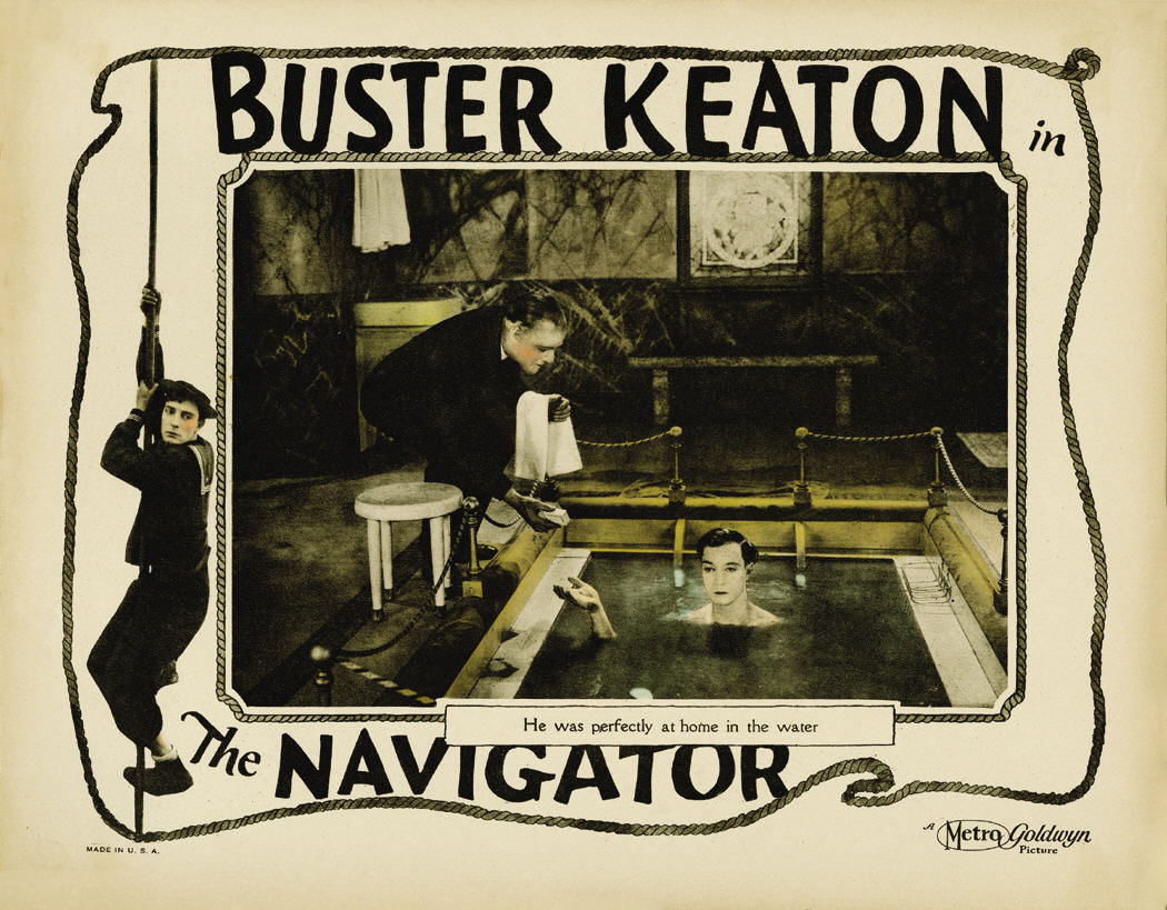 Poster for the 1924 Buster Keaton vehicle The Navigator